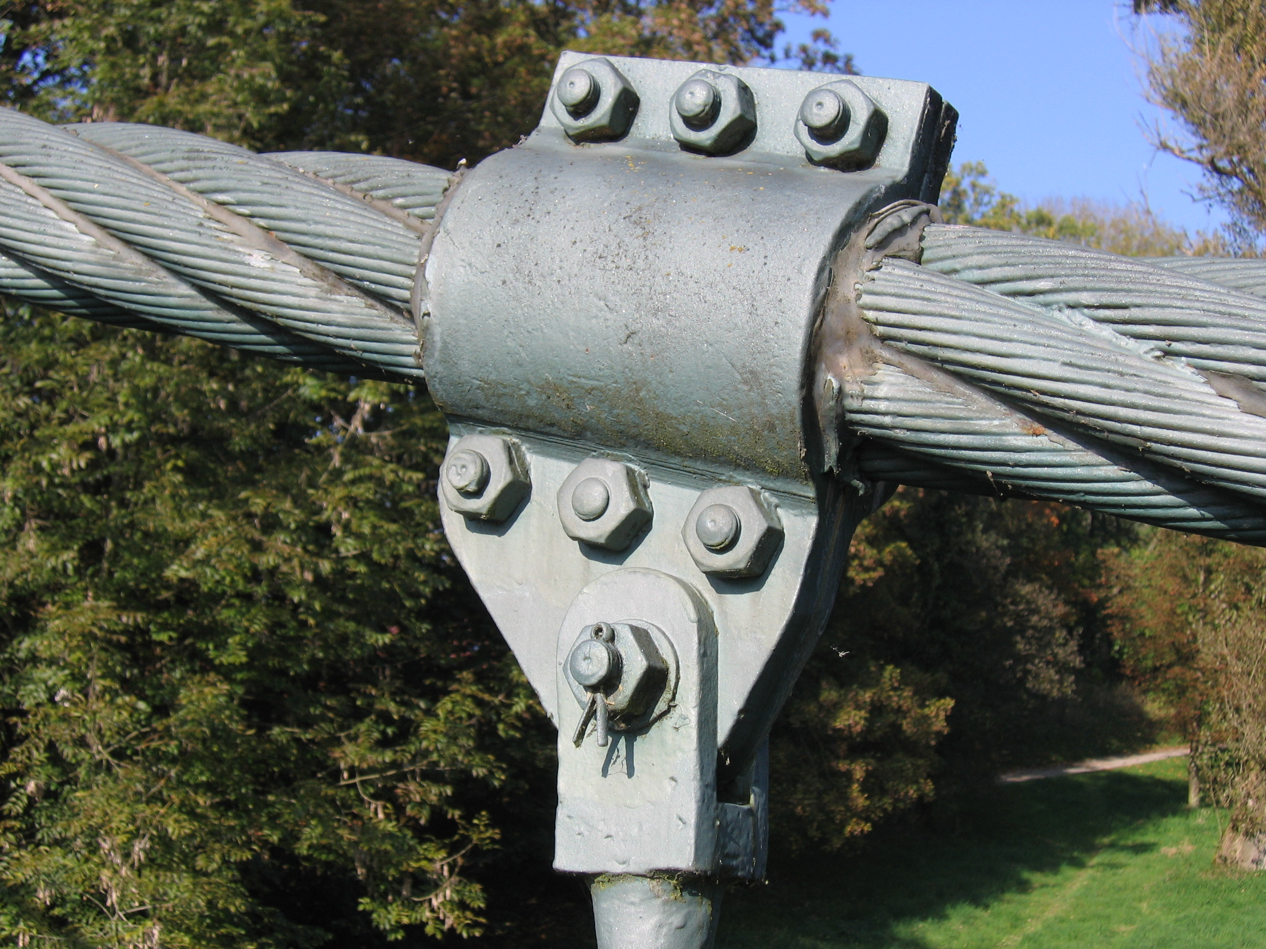 Germany - Baden-Württemberg - Bodenseekreis - Kressbronn/Langenargen: suspension bridge